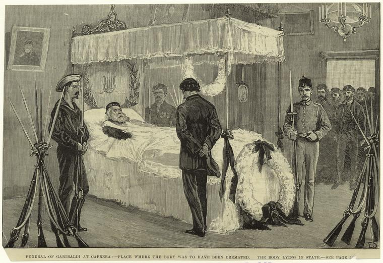 Image Title Funeral of Garibaldi at Caprera, the place where the body was to have been cremated : the body lying in state. Creator E. D., artist, fl. ca. 1882 -- Artist Additional Name(s) W. I. M. -- Engraver Published Date 1882 Depicted Date 1882 Specific Material Type Prints Item Physical Description 1 print : b&w ; 16 x 24 cm. (6 1/4 x 9 1/4 in.) Notes Written on mount: "June 17, 1882." Tear at bottom. Original Source From The Illustrated London news. ([London] [ The Illustrated London News & Sketch Ltd.] 1842-) . Source Mid-Manhattan Picture Collection / Portraits -- Garibaldi Source Description 1 folder (34 pictures) Location Mid-Manhattan Library / Picture Collection Catalog Call Number PC Digital ID 815130 Record ID 718733 Digital Item Published 10-27-2005; updated 3-25-2011